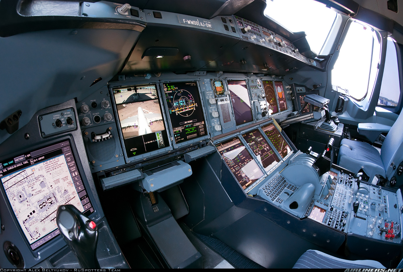 Airbus A380 F-WWDD (cn 004) cockpit